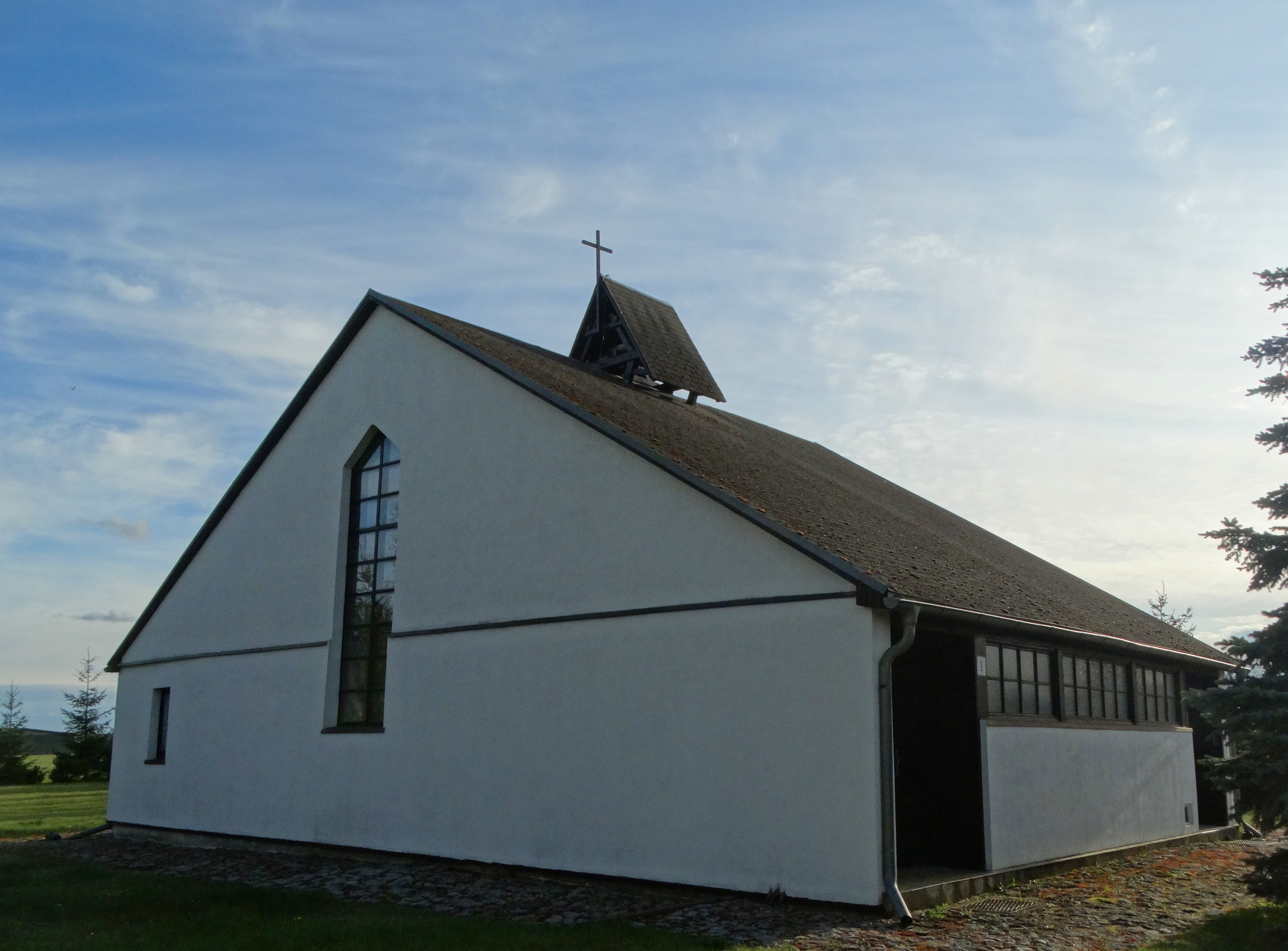 Emmaus Lutheran Church, Sudargas, Šakiai district, Lithuania